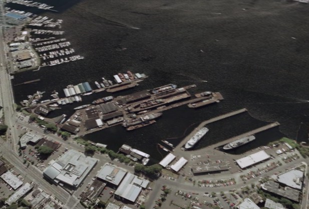 An air-photo of the Lake Union Dry Dock company, taken with a digital camera at a lucky moment.